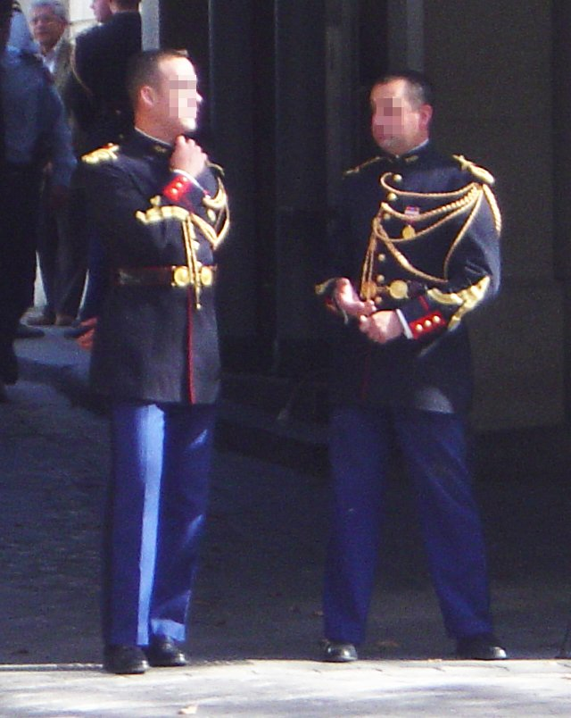 Republican Guards in front of the Élysée Palace in Paris, France